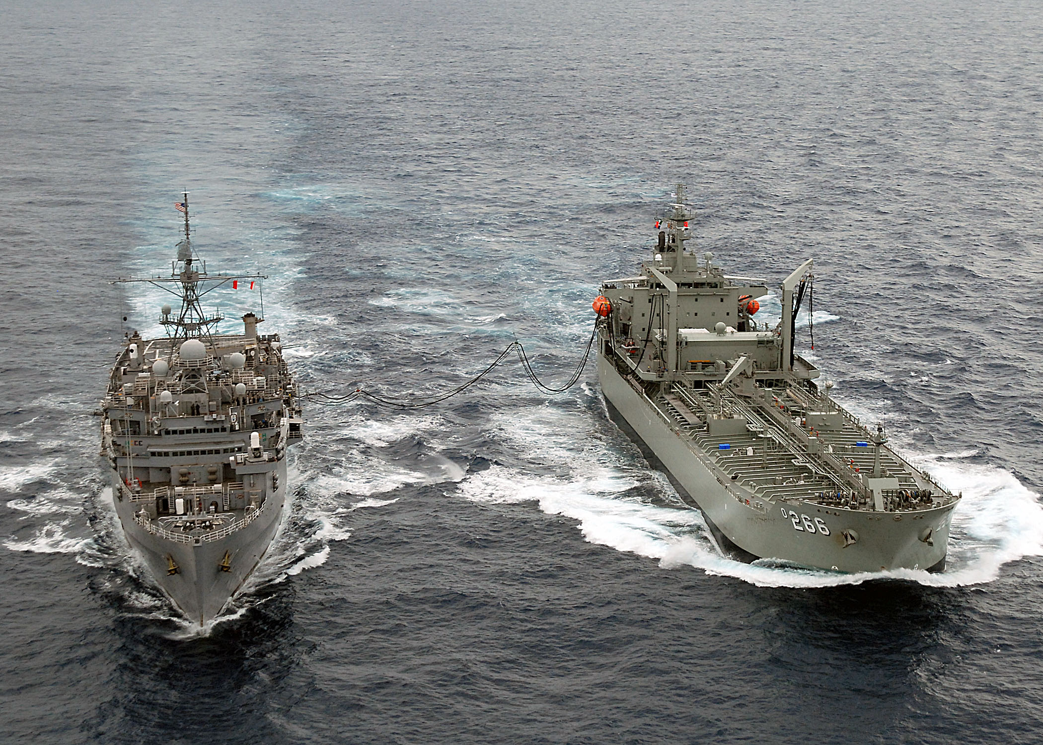 From left, amphibious transport dock USS Juneau (LPD 10) and Royal Australian Navy ship HMAS Sirius (O-266) perform a replenishment at sea. Juneau is participating in exercise Talisman Saber 07 (TS07) in the Pacific Ocean.